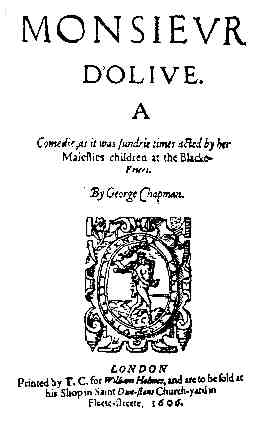 Title page of Monsieur D'Olive